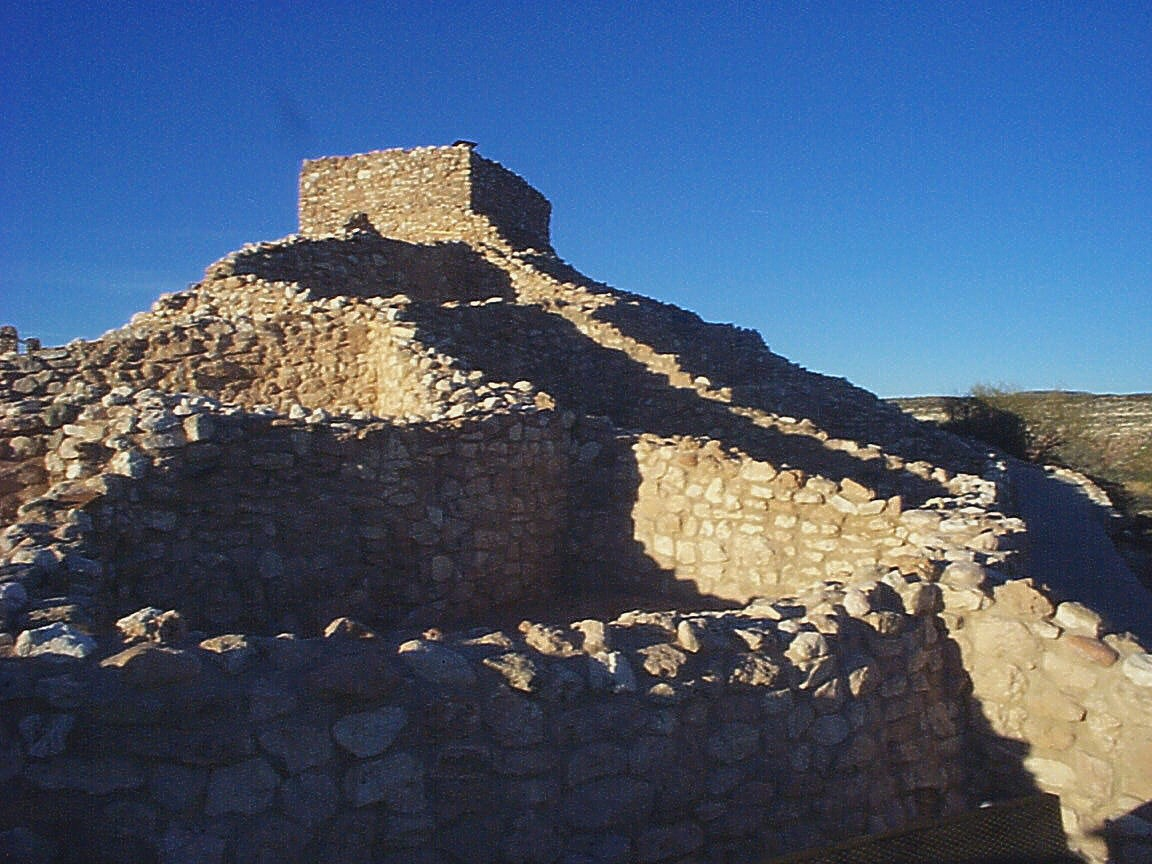 Walls of Pueblo in Tuzigoot National Monument, Arizona